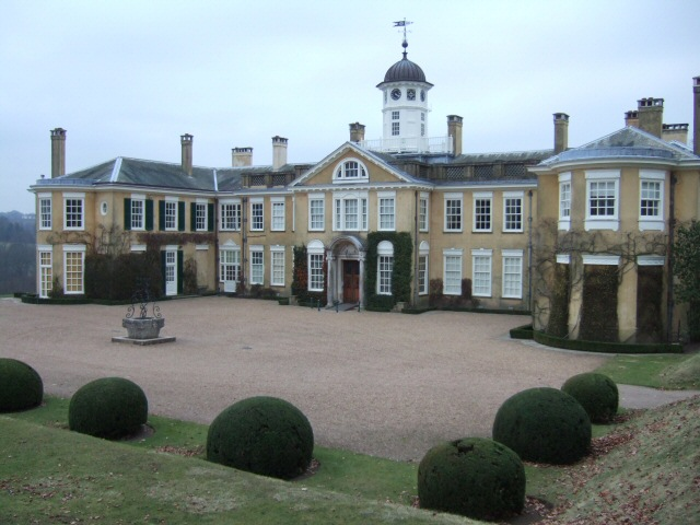 Photograph of Polesden Lacey (National Trust property near Dorking, Surrey)